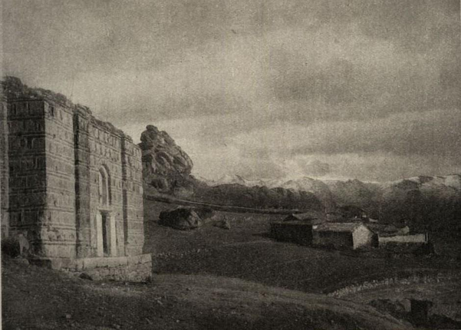 St. Athanasius Church in Varoš, Macedonia. Taken before 1920.